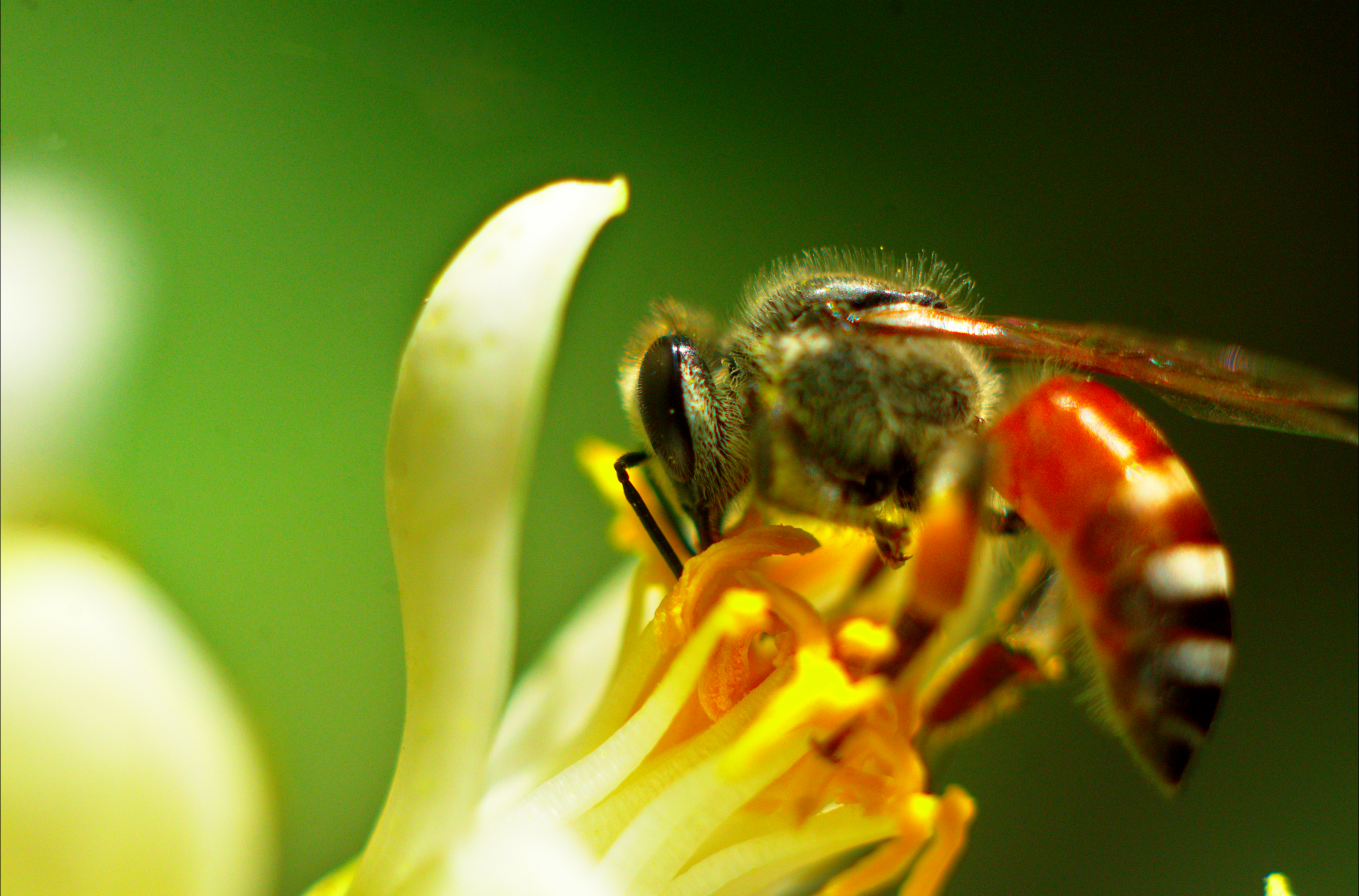 Apis florea on Lemon flower